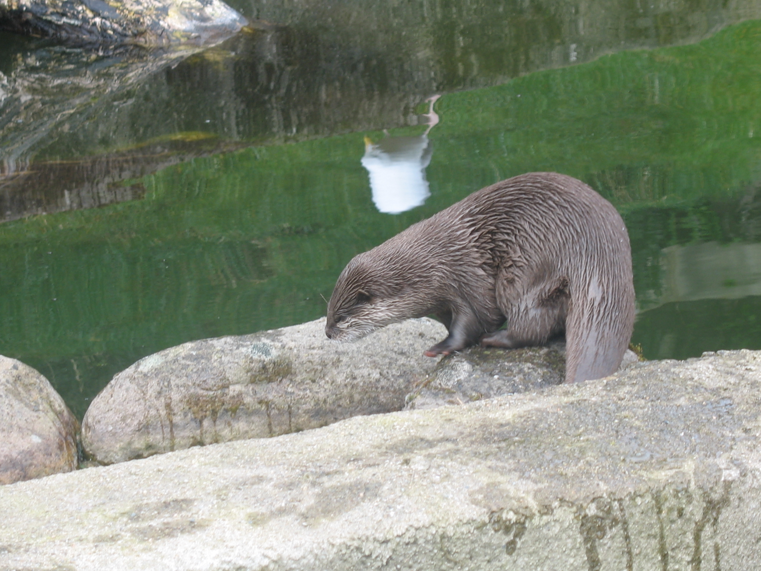 Otter in Belfast Zoo.